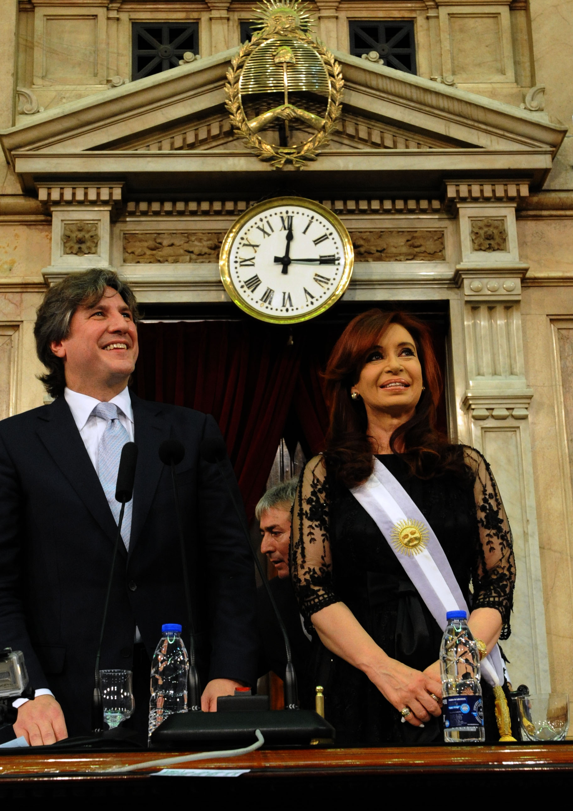 Vice President Amado Boudou and President Cristina Fernández de Kirchner at the Inauguration day.